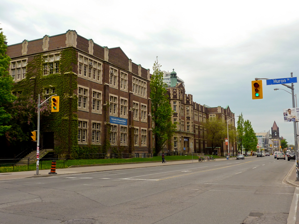 This is actually some sort of high school affiliated with the University of Toronto. According to Wikipedia, tuition is $18,300 a year.